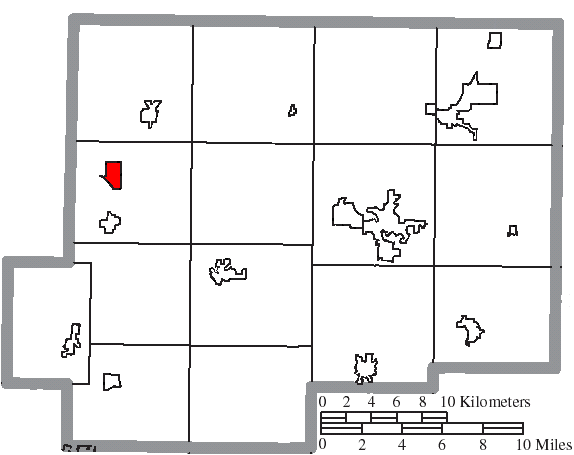 Map of the municipal and township boundaries of Putnam County, Ohio, United States, as of the 2000 census, with the location of the village of Dupont highlighted. Township borders are shown only in unincorporated areas in order to differentiate incorporated and unincorporated areas more clearly.